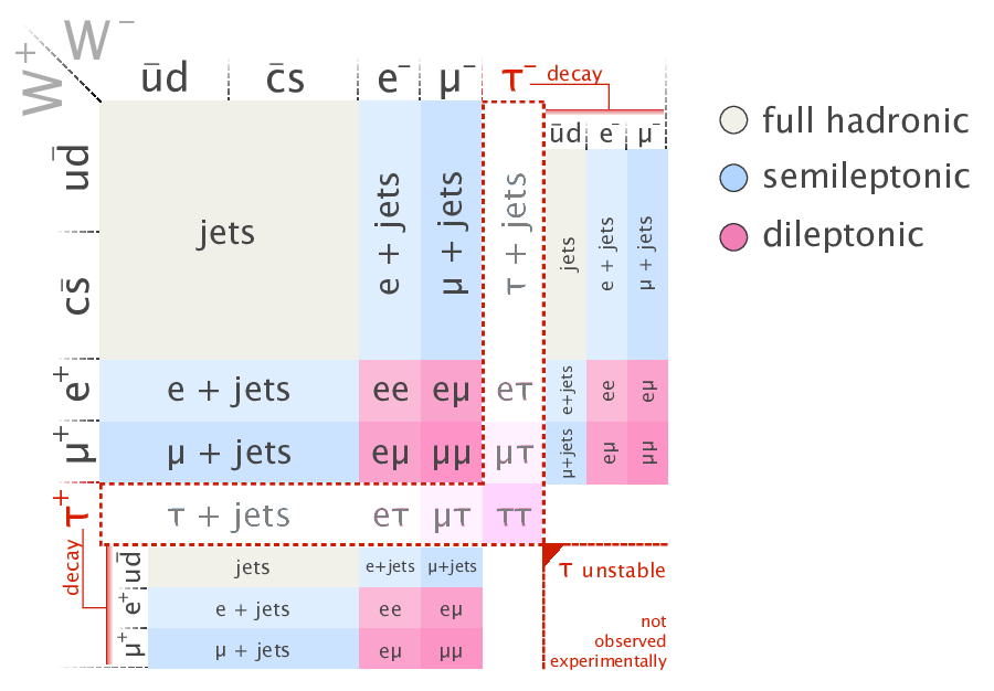 Categorisation of possible decay channels of a top-quark pair, including decays of W bosons to tau leptons